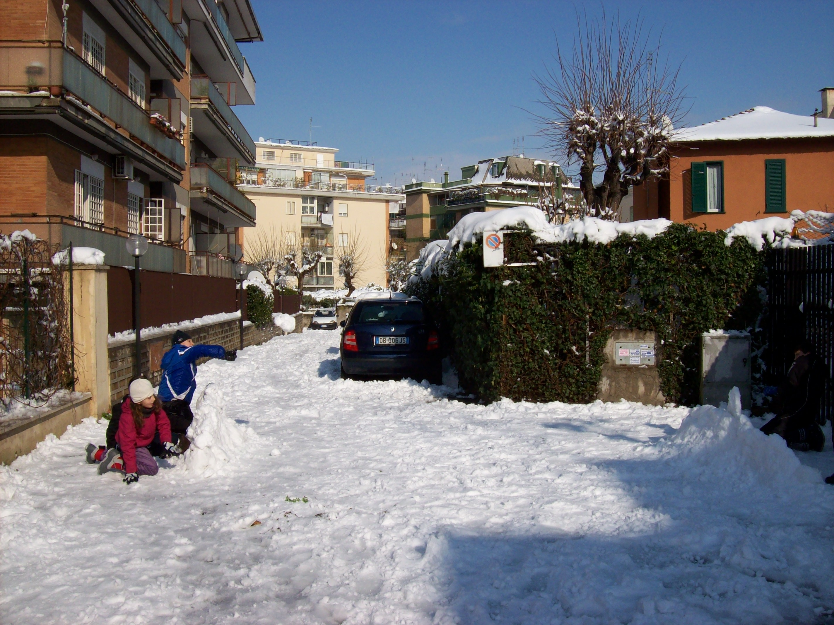 Rome, 4 February 2012 - Snowball amongst children in Rome, after the biggest snowfall in the city since 1985 and two years after the 2010 snowfall.